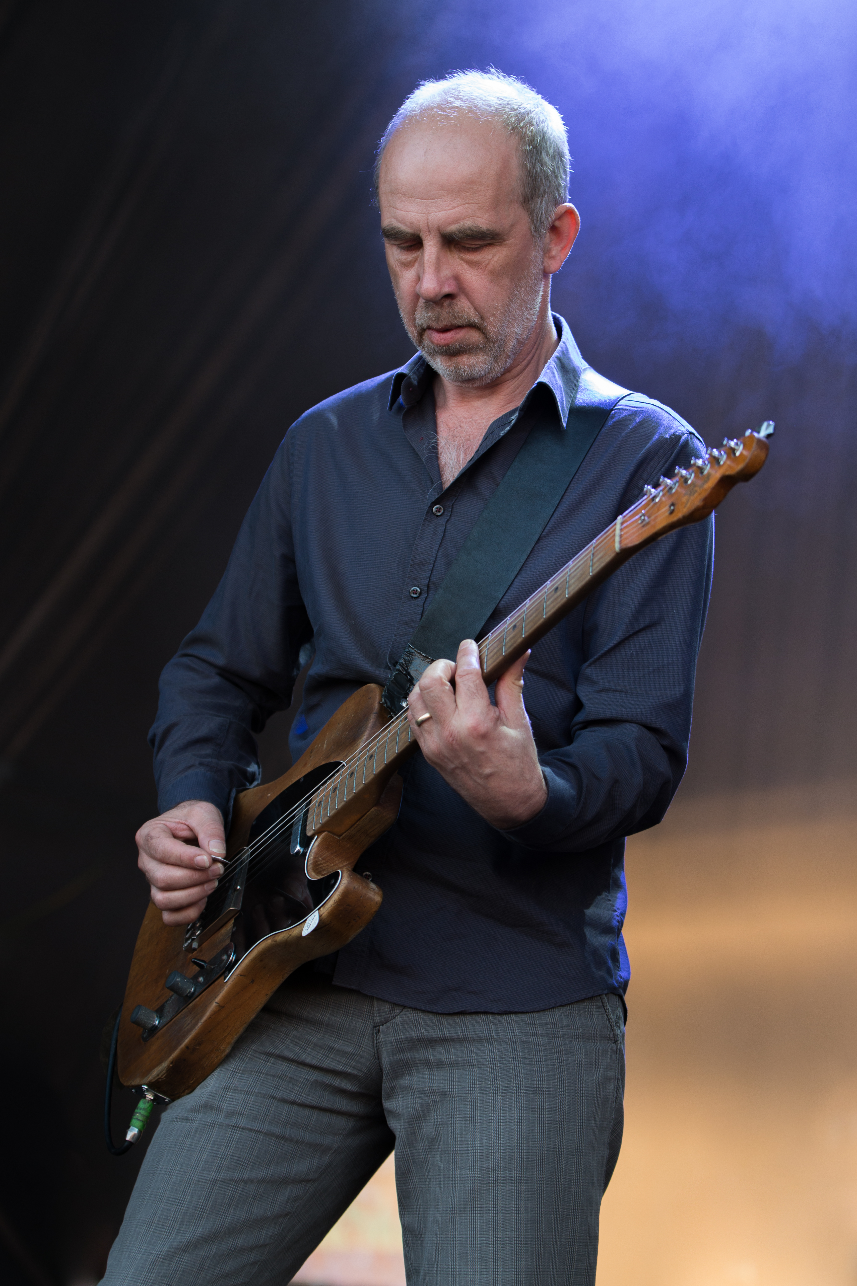 Jakob Ilja, Element of Crime, Folklore 015| festival at theSchlachthof in Wiesbaden